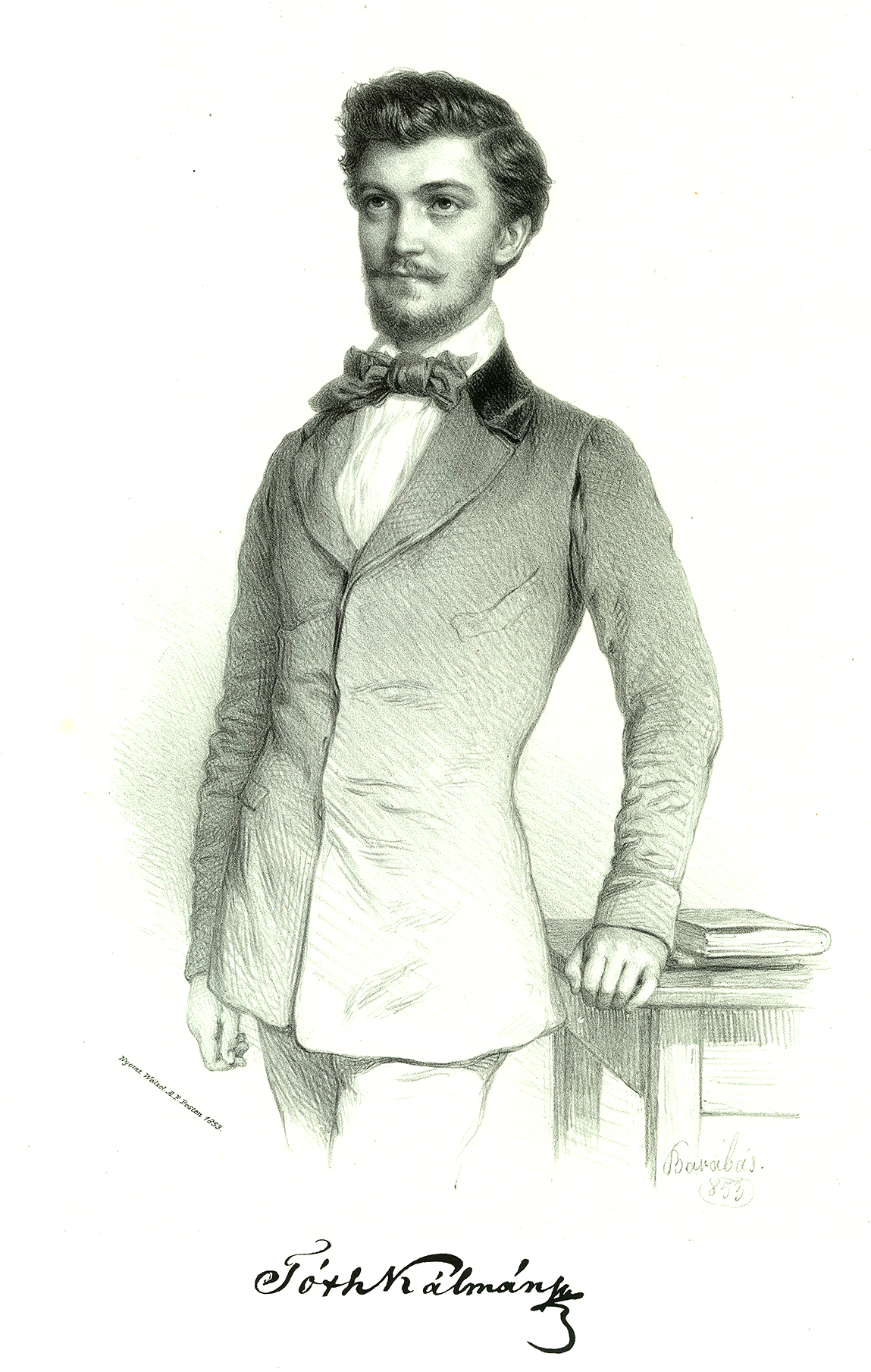 Tóth Albert Kálmán (Baja, 1831. március 30. – Budapest, 1881. február 3.) magyar költő